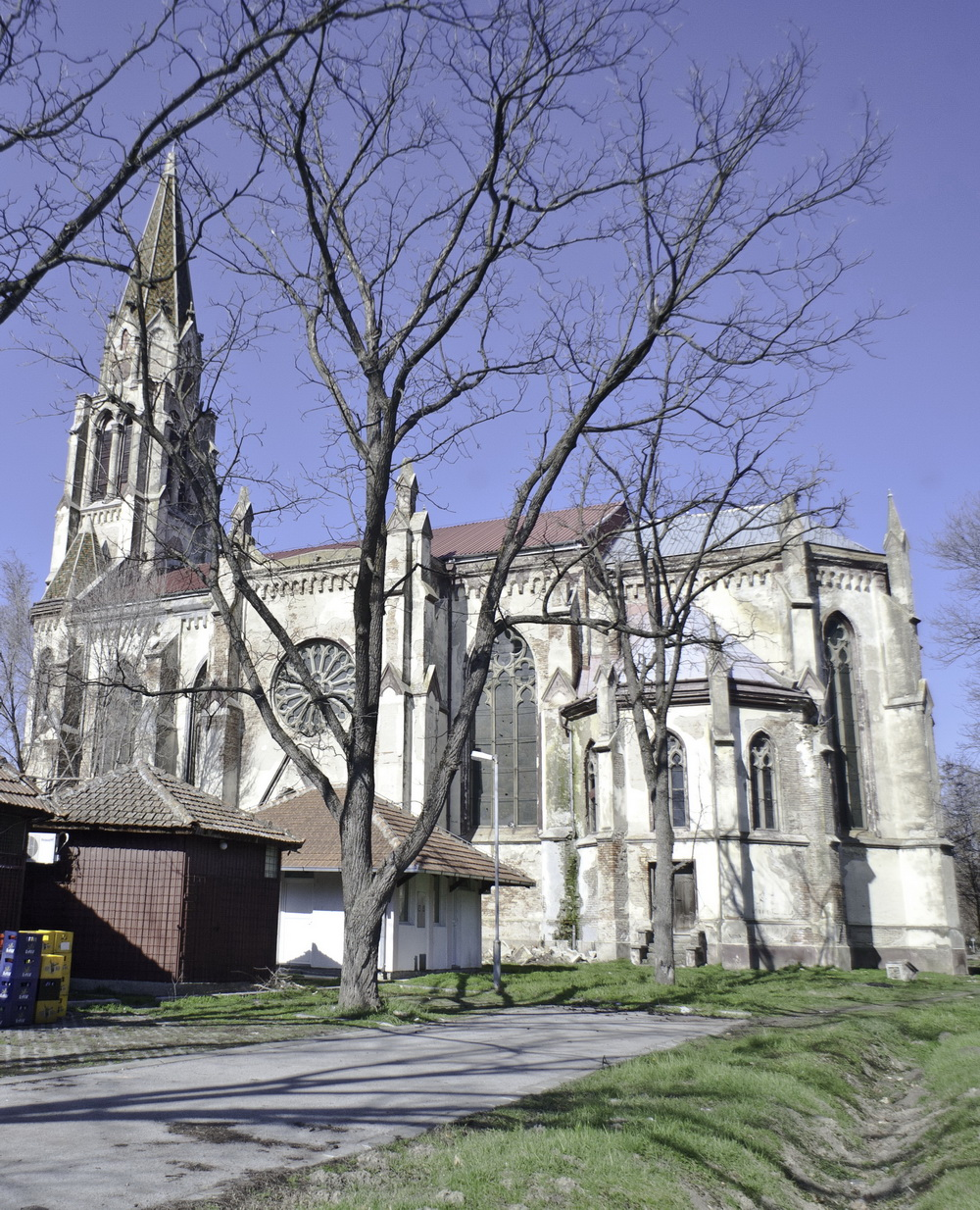 Roman Catholic church of the Holy Mary in Jaša Tomić